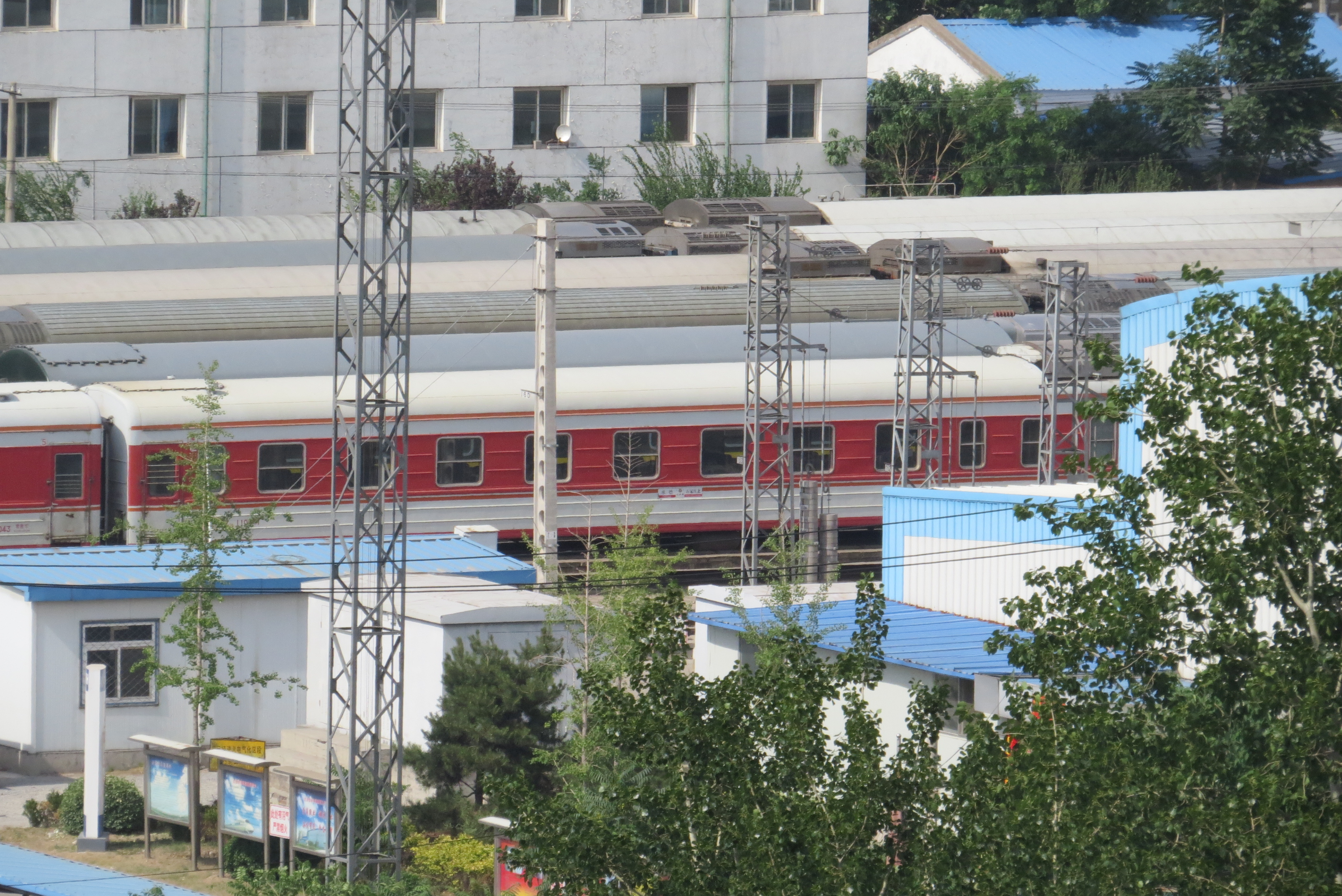 Still a German coach, with different window frames.